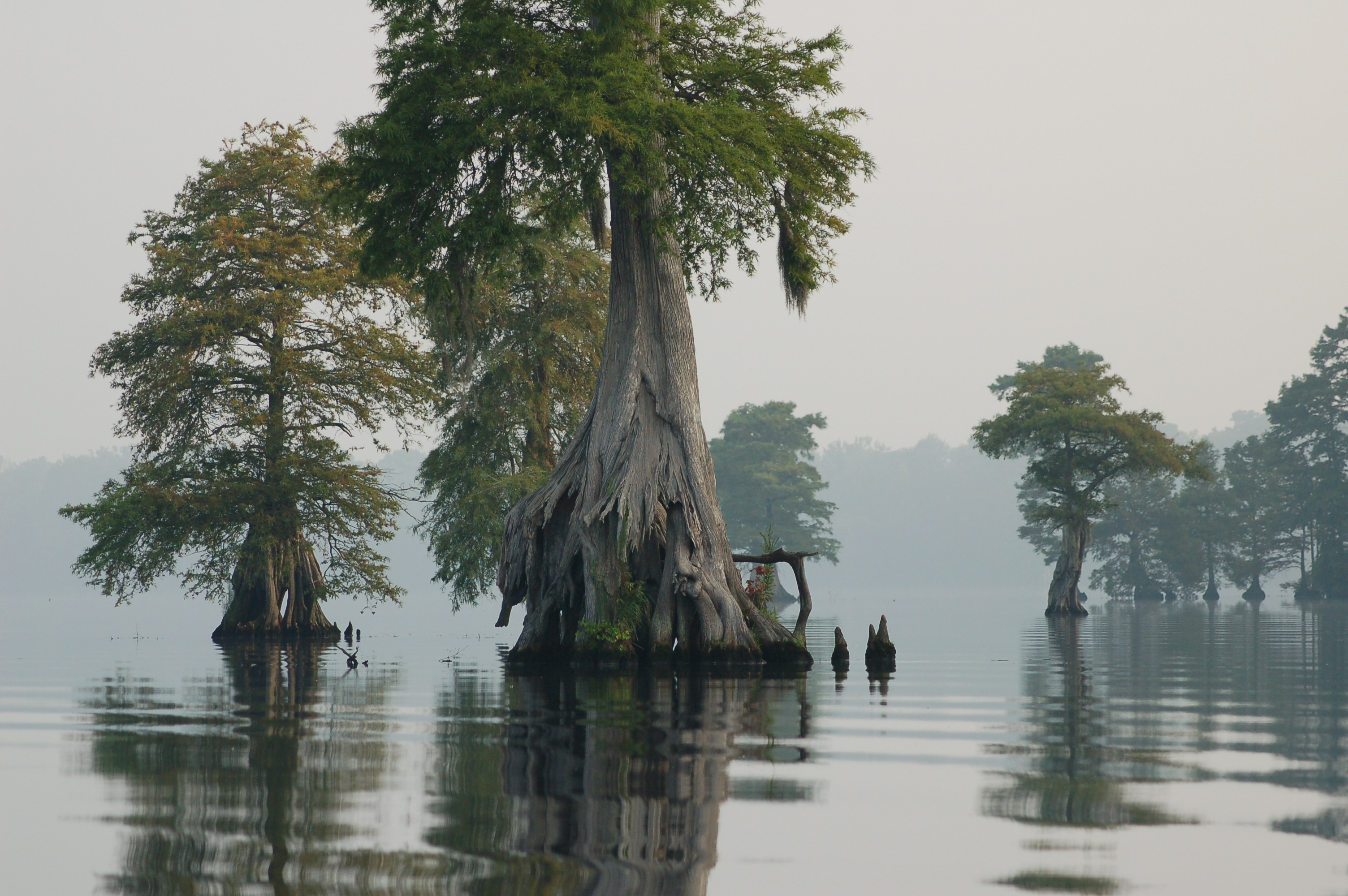 Photo of the Week - 05/04/2010 Lake Drummond at Great Dismal Swamp National Wildlife Refuge in Virginia. Credit: Rebecca Wynn/USFWS